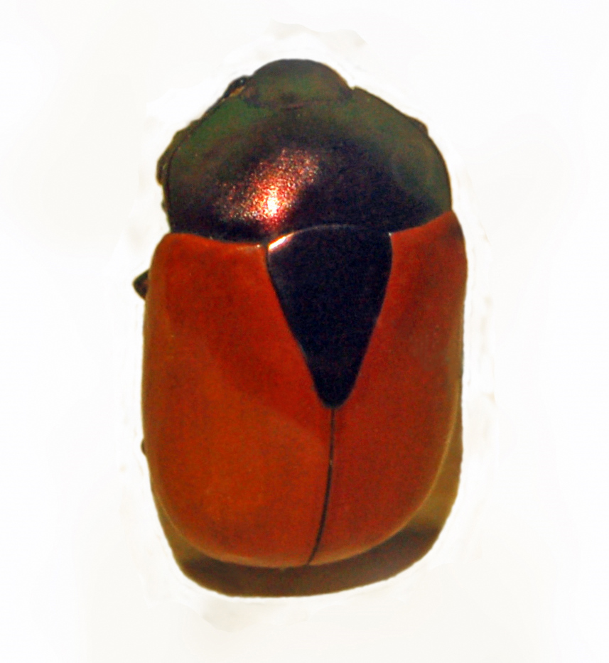 Macraspis clavata. Museum specimen.